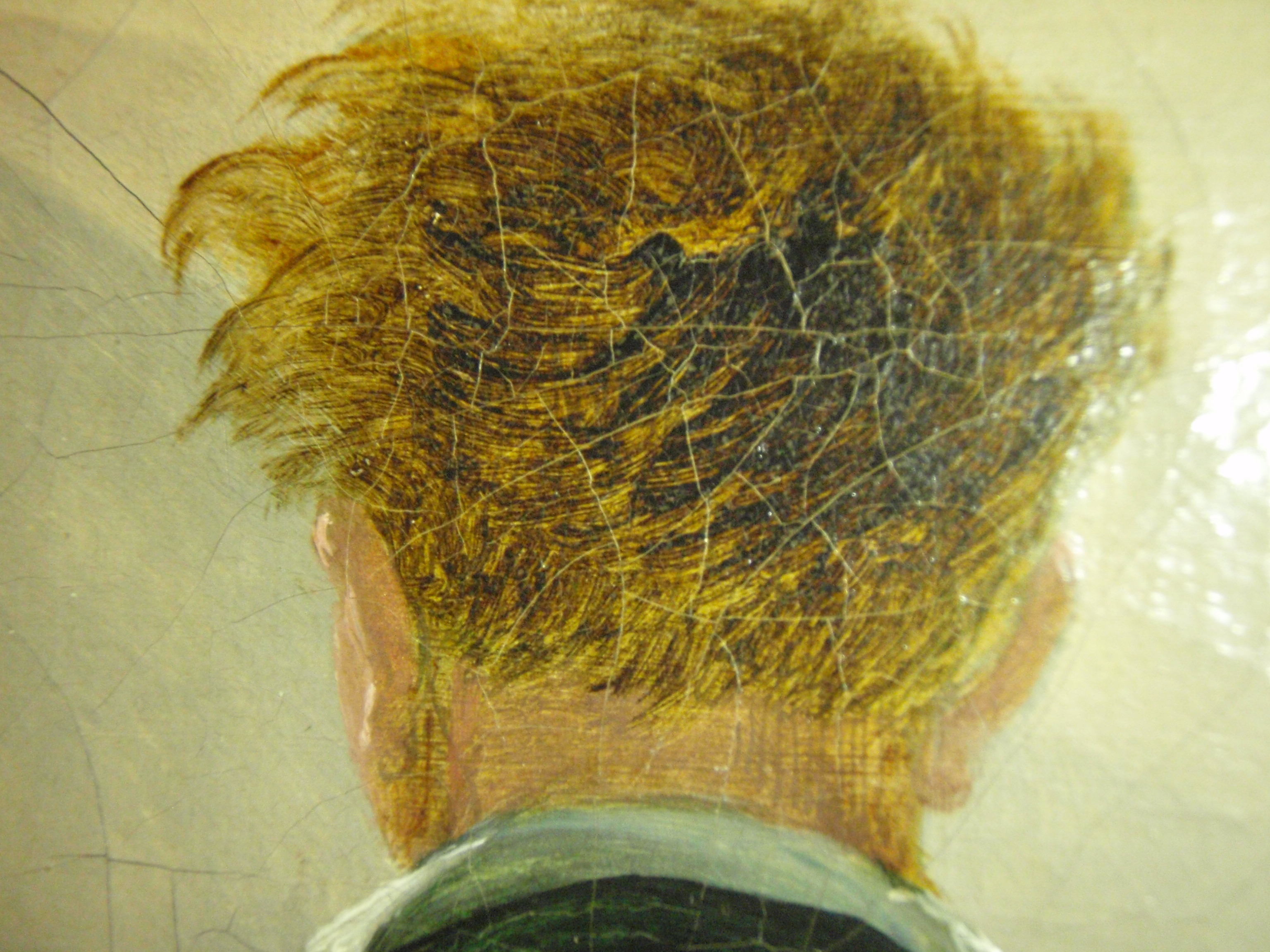 "Wanderer above the Sea of Fog", detail of the original painting, back of the head of the wanderer, Hamburger Kunsthalle